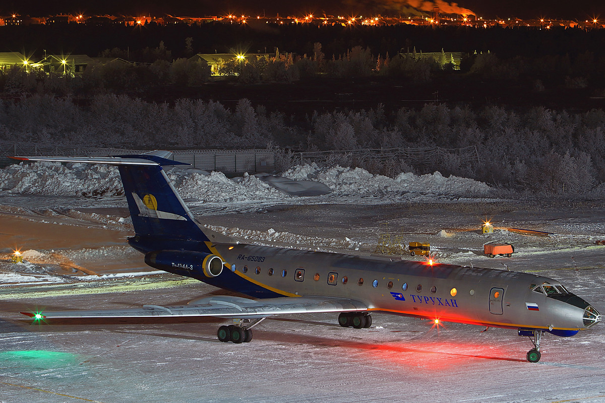 Turukhan Tupolev Tu-134A-3 at Naryan Mar Airport